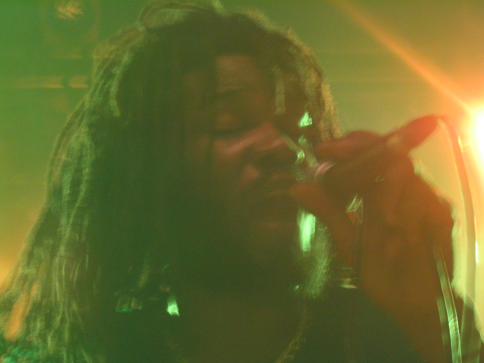 The reggae band Gladiators in concert in Rockstore, Montpellier, France, 11/20/06